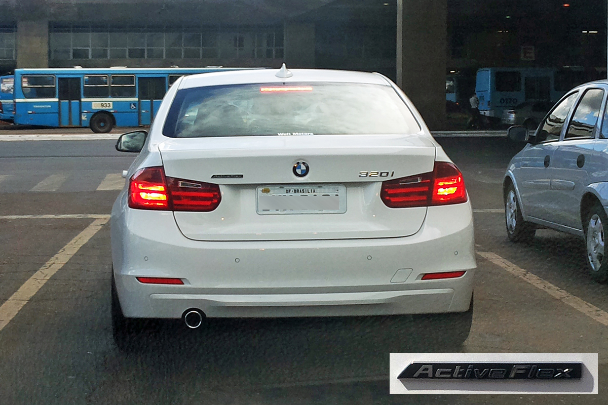 Rear view of the Brazilian BMW 320i ActiveFlex in Brasilia, DF, Brazil. The inset is the ActiveFlex badge located at the left side of the trunk that identifies the car as a flexible-fuel vehicle.